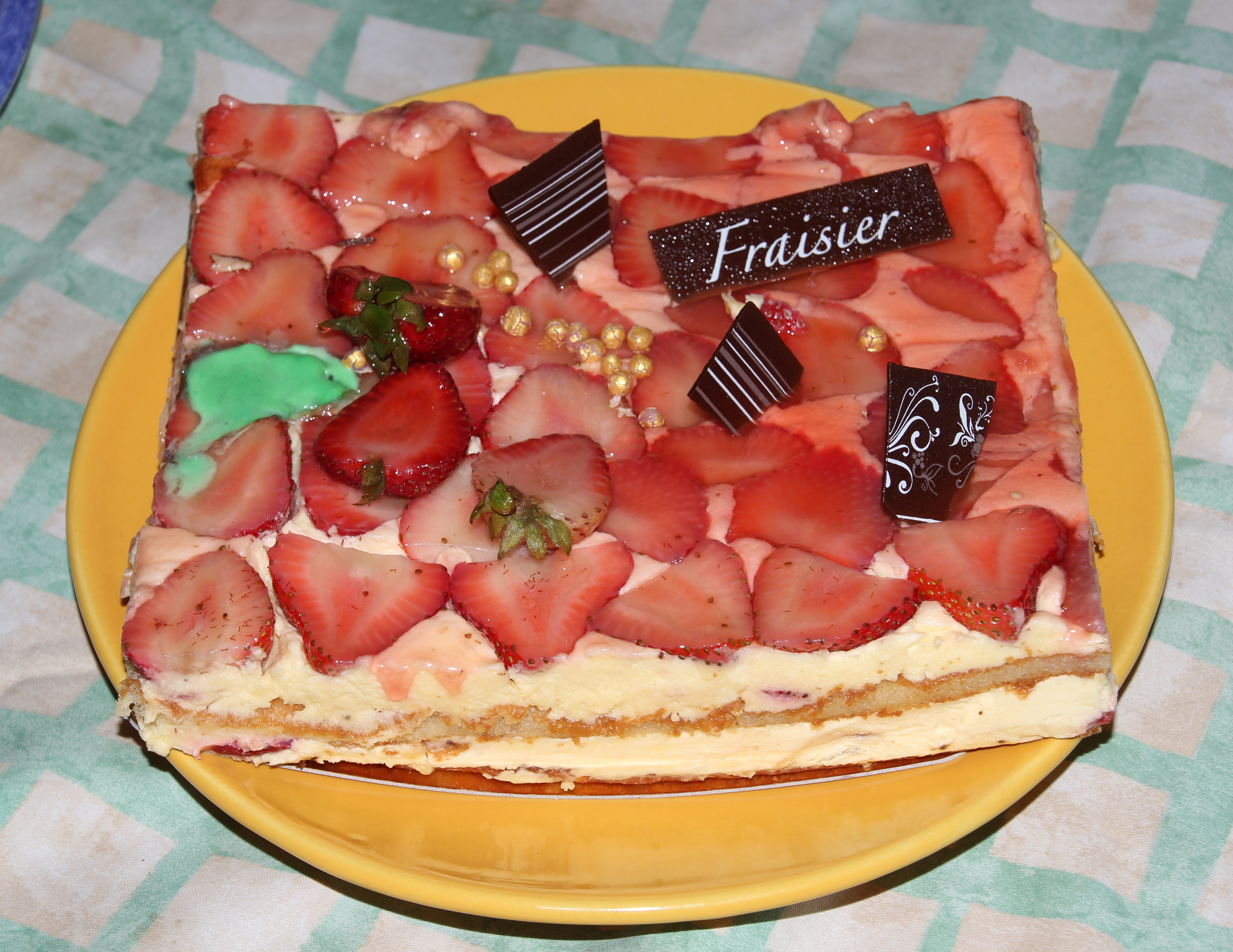 A fraisier.